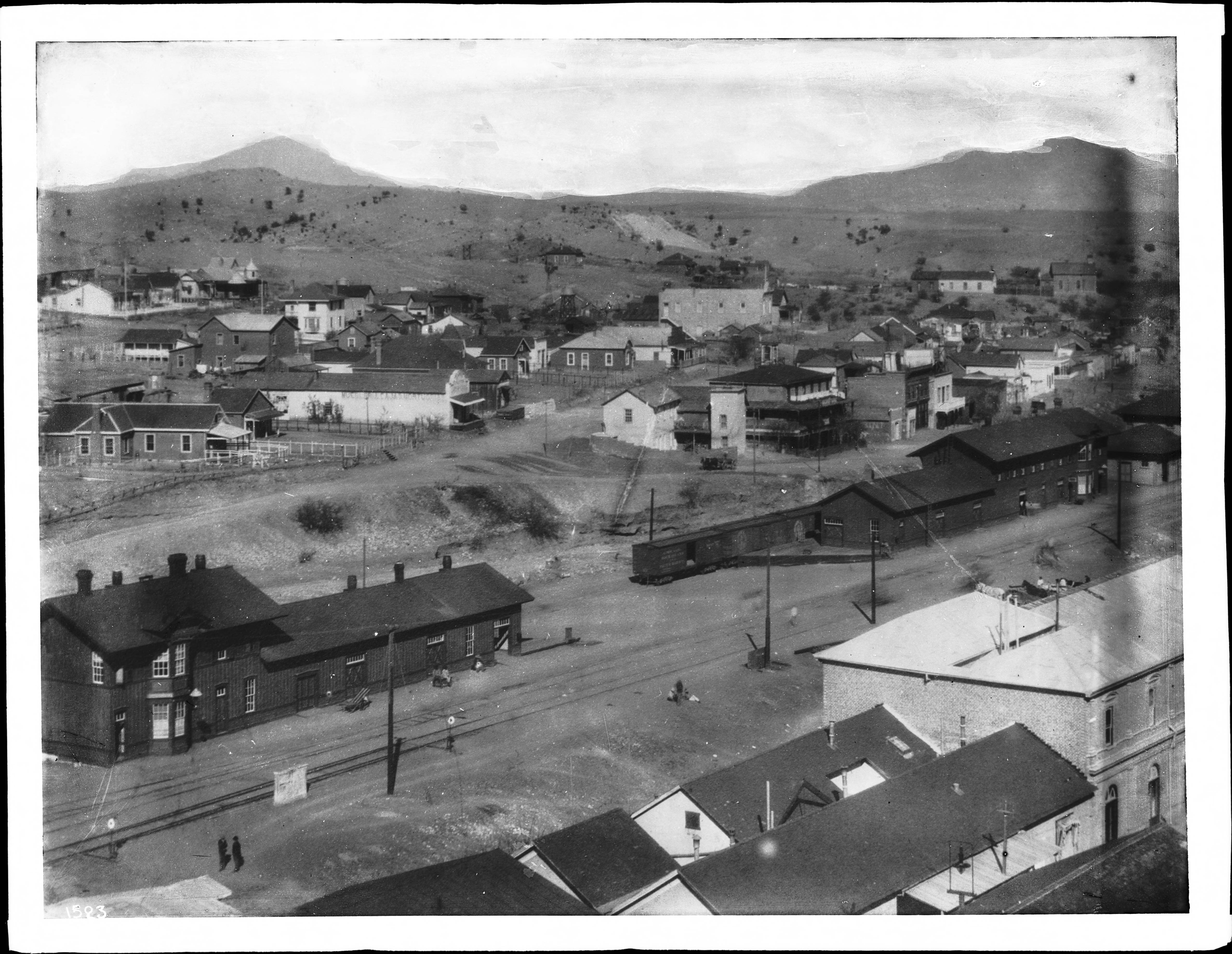 Panoramic view of the city of Nogales, Mexico, ca.1905 Photograph of a panoramic view of the city of Nogales, Mexico, ca.1905. Railroad tracks run through the middle of the city view. The buildings are constructed in a variety of styles and sizes. Some are situated in denser areas than others. The gradual slope of a low hilly area rises in the background. Mountains are visible in the distance. Call number: CHS-1523 Filename: CHS-1523 Coverage date: circa 1905 Part of collection: California Historical Society Collection, 1860-1960 Type: images Part of subcollection: Title Insurance and Trust, and C.C. Pierce Photography Collection, 1860-1960 Repository name: USC Libraries Special Collections Format: glass plate negatives Microfiche number: 1-224- Archival file: chs_Volume92/CHS-1523.tiff Geographic subject (city or populated place): Nogales Repository address: Doheny Memorial Library, Los Angeles, CA 90089-0189 Subject (adlf): cities Geographic subject (country): Mexico Format (aacr2): 2 photographs : glass photonegative, photoprint, b&w ; 17 x 22 cm. Rights: Digitally reproduced by the USC Digital Library; From the California Historical Society Collection at the University of Southern California Project: USC Accession number: 1523 Repository Contributing entity: California Historical Society Date created: circa 1905 Publisher (of the digital version): University of Southern California. Libraries Format (aat): photographic prints; photographs Legacy record ID: chs-m15075; USC-1-1-1-14155 Access conditions: Send requests to address or e-mail given. Phone (213) 821-2366; fax (213) 740-2343. Subject (file heading): Mexico -- Zacateca Subject (lcsh): Cities and towns; Buildings; Railroads